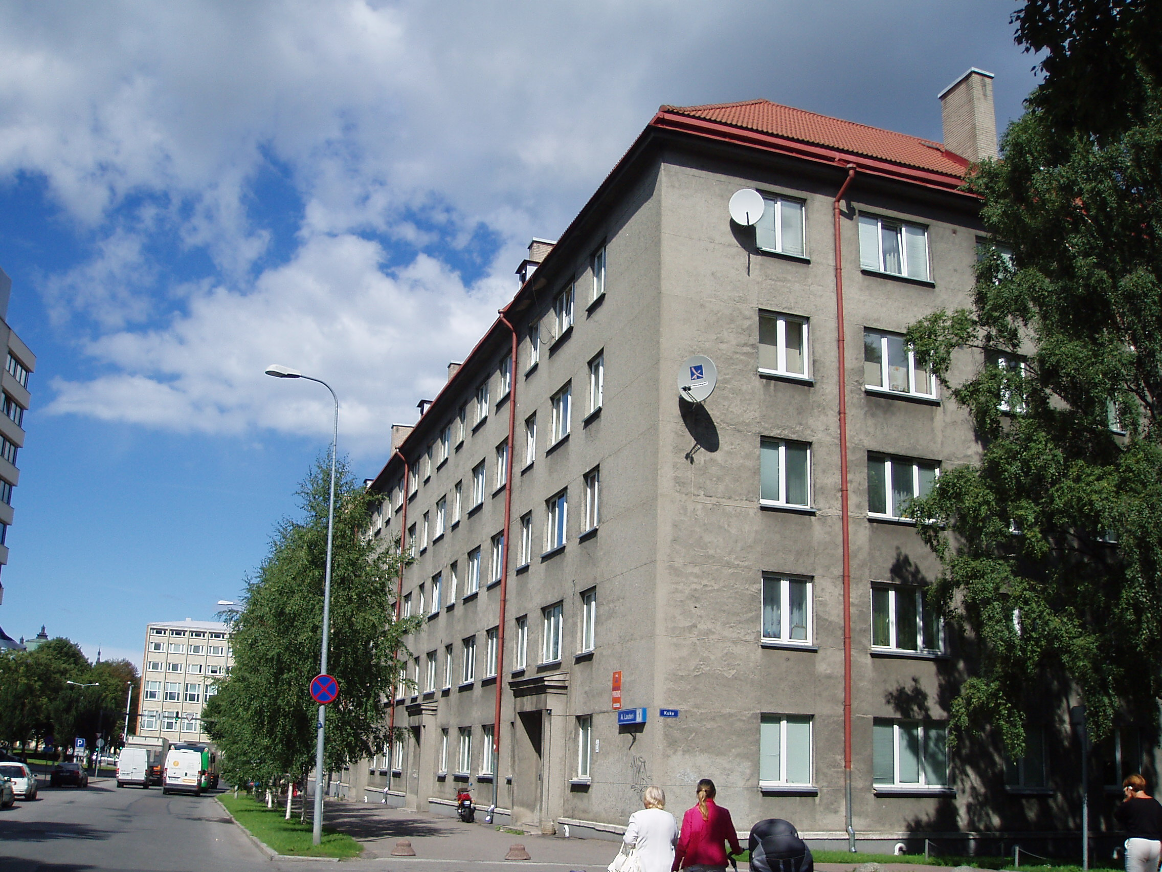 Lauteri tn 1 Tallinn 11 August 2011